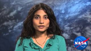 Mamta Patel Nagaraja - MissionSTEM